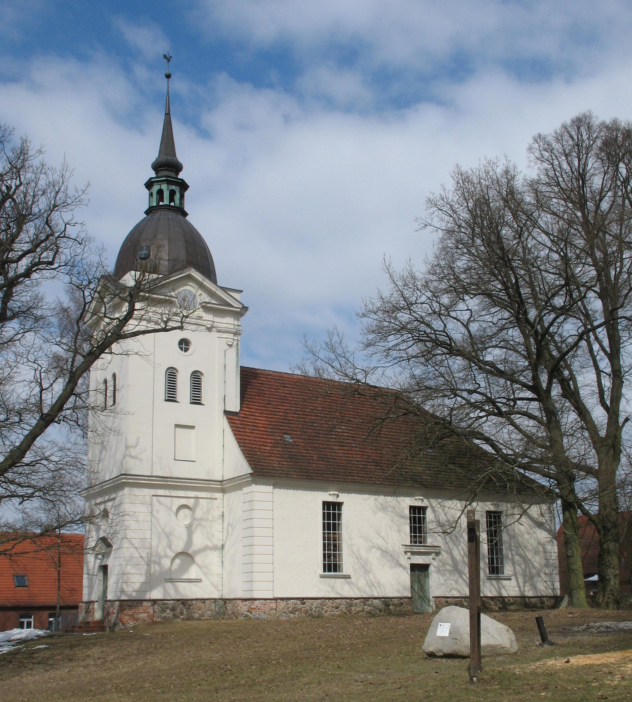 Church in Wredenhagen in Mecklenburg-Western Pomerania, Germany